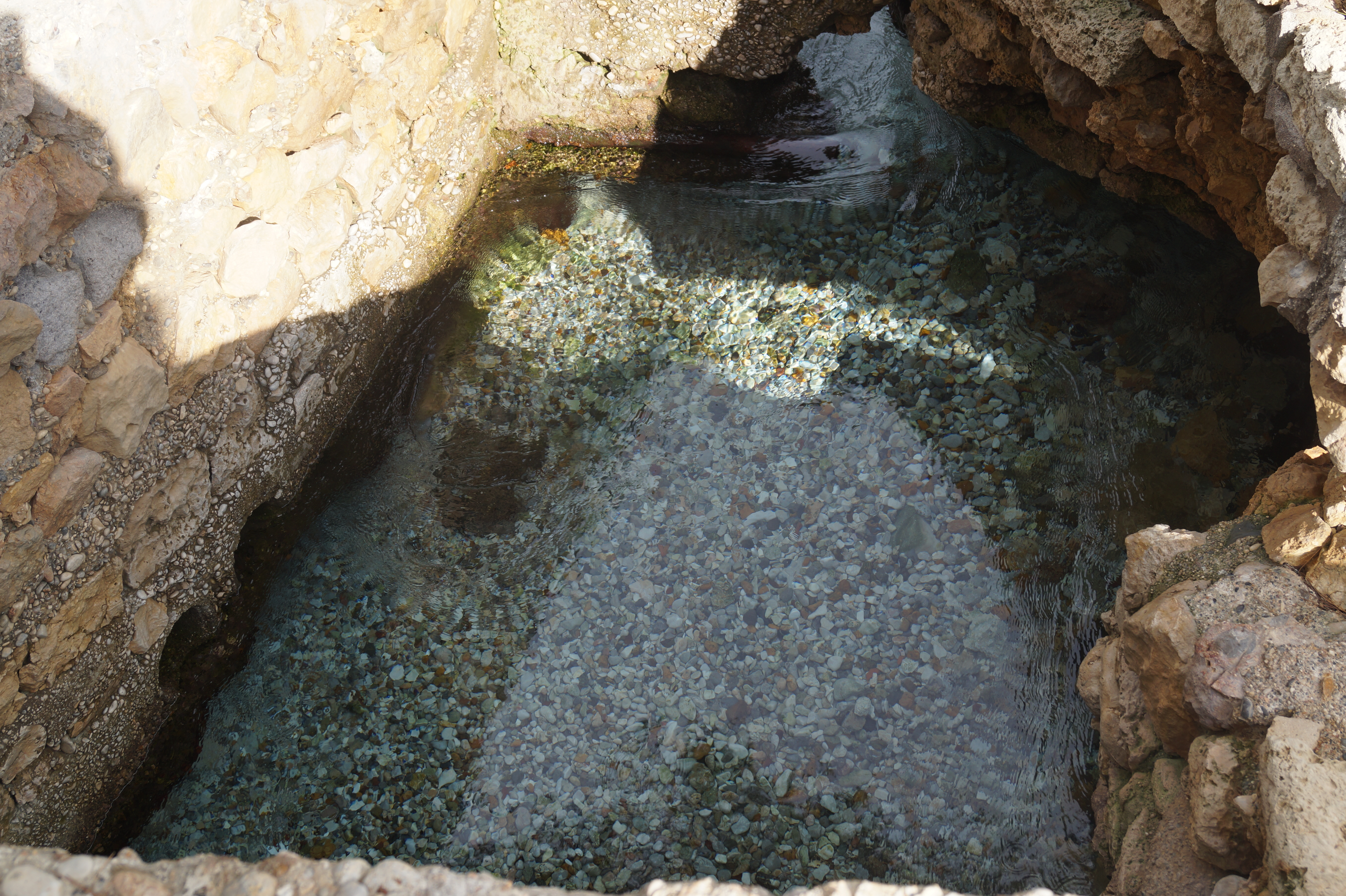 Loutra Oreas Elenis, Corinthia, Greece: South Basin of the baths of Helen.